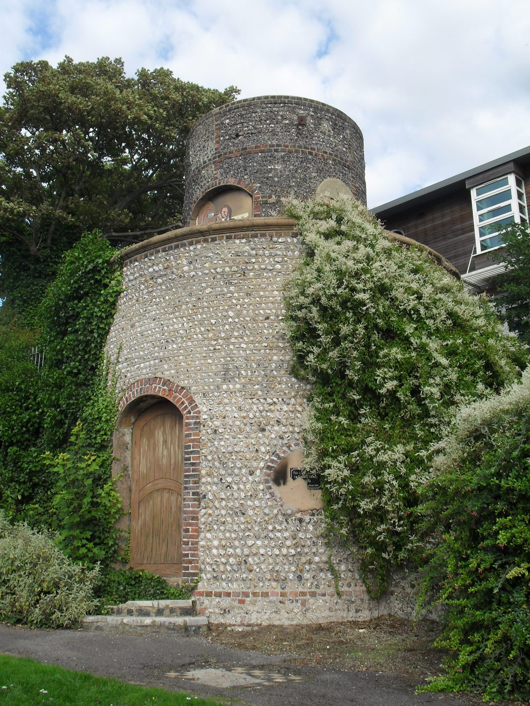 Tower at Tarner Recreation Ground, Sussex Street, Carlton Hill, City of Brighton and Hove, England. Built in the mid-19th century as a lookout tower in the grounds of number 1 Tilbury Place. Listed at Grade II by English Heritage (IoE Code 481325)